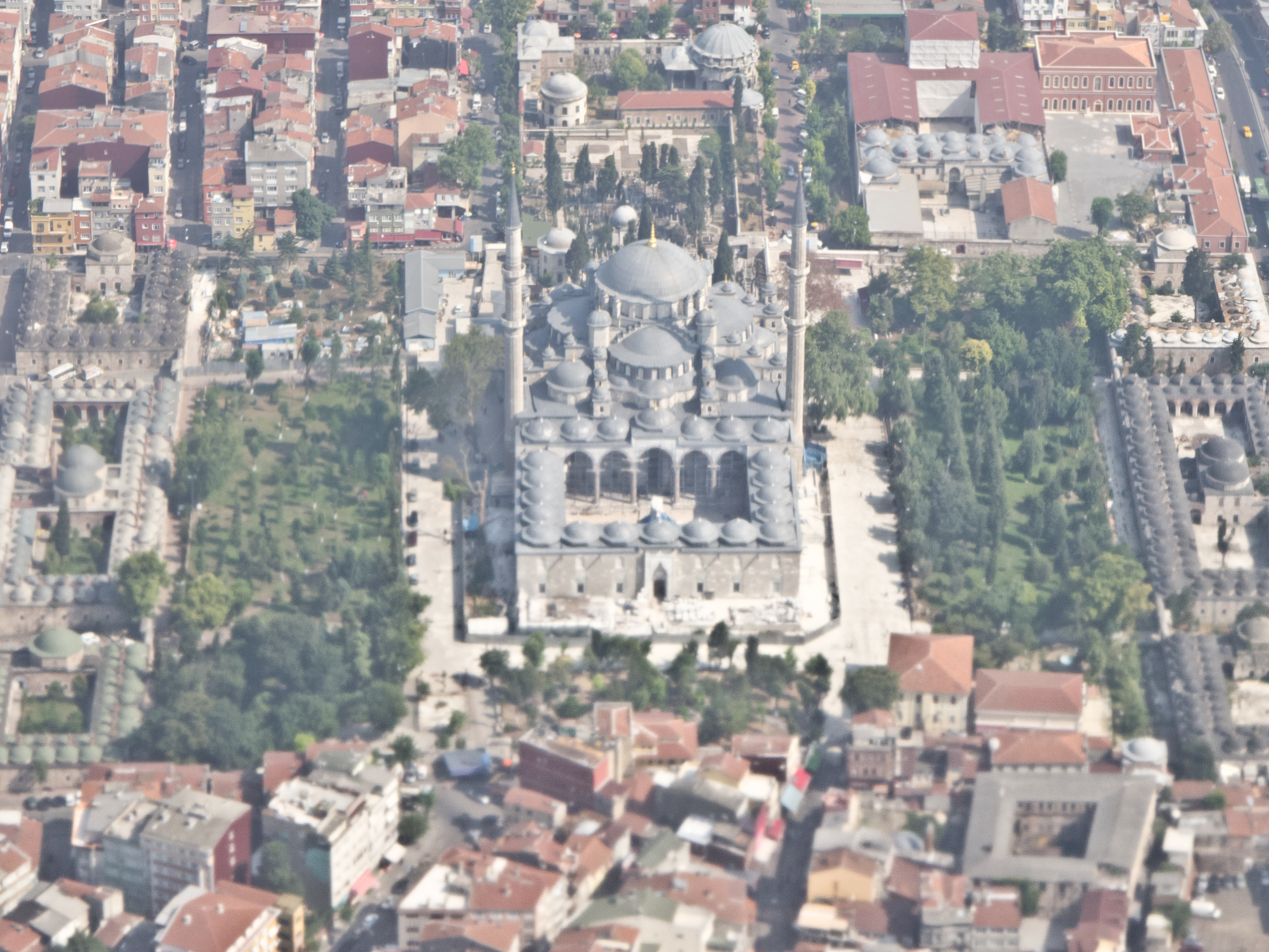 Aerial view of Fatih Mosque, Istanbul, Turkey.